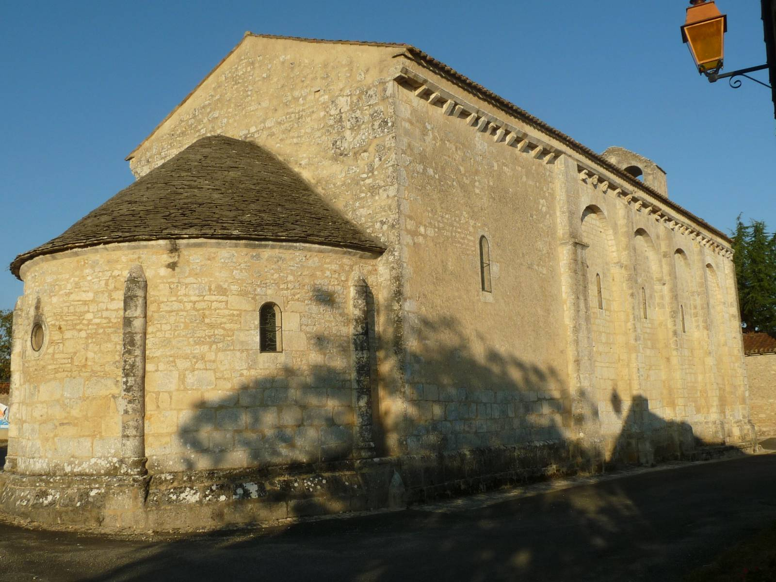 church